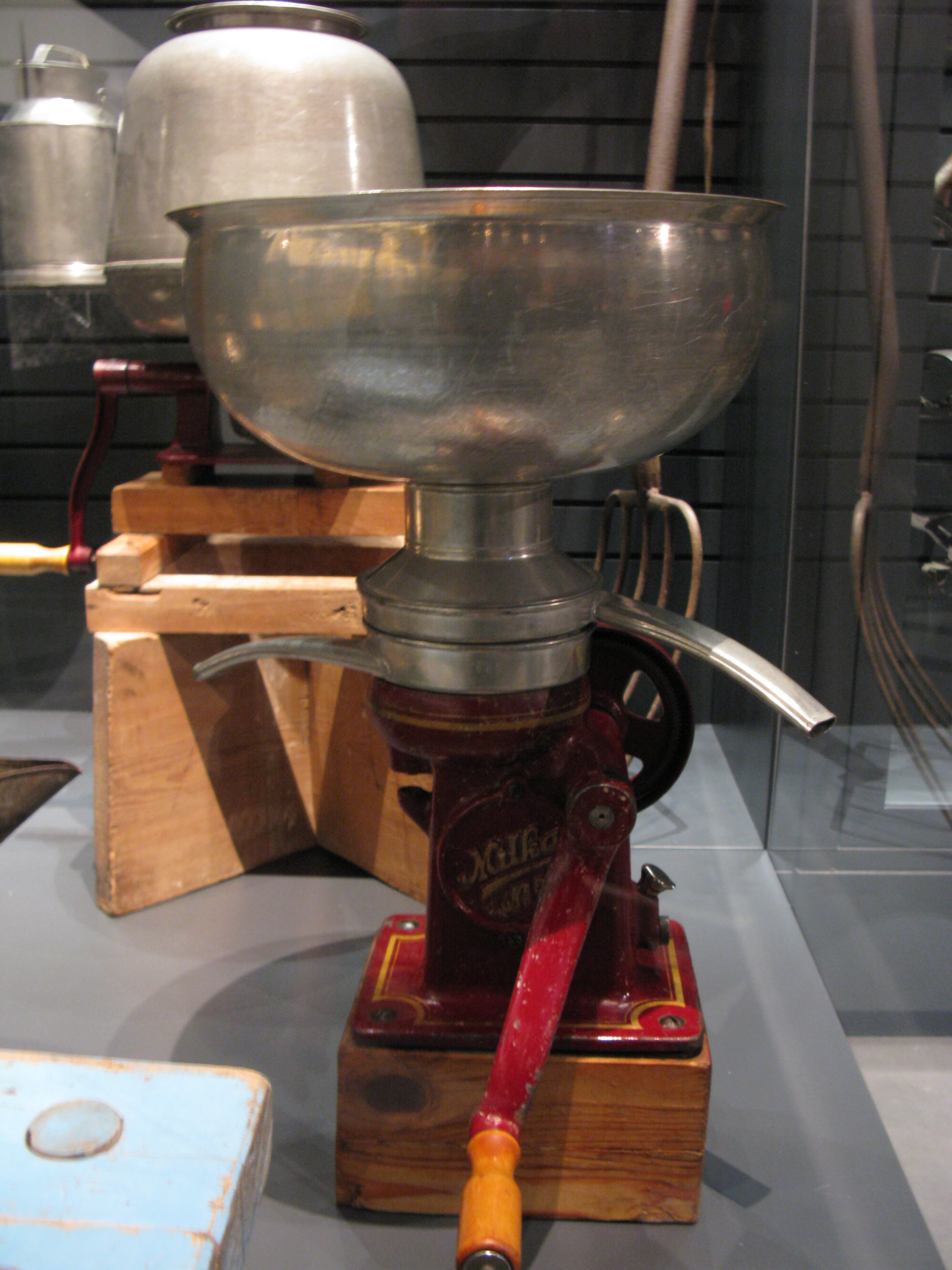 An old milk separator in a museum in Kotka, Finland.